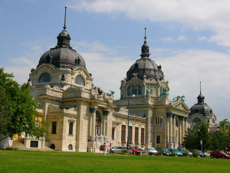 Széchényi thermal bath (hungarian Széchenyi Gyógyfürdő), Budapest, Hungary